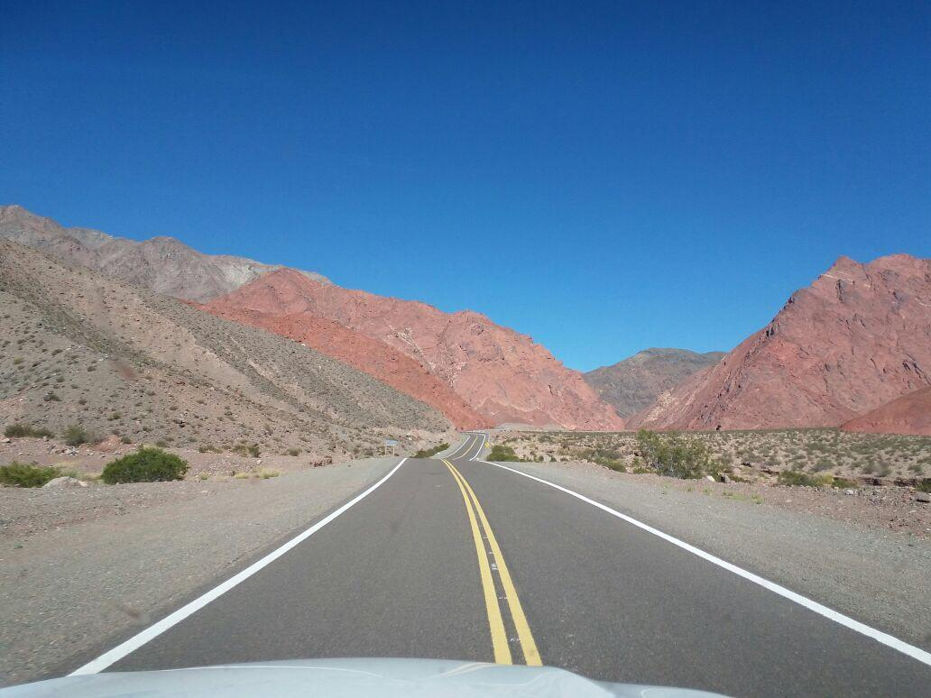 Paso Internacional Pircas Negras